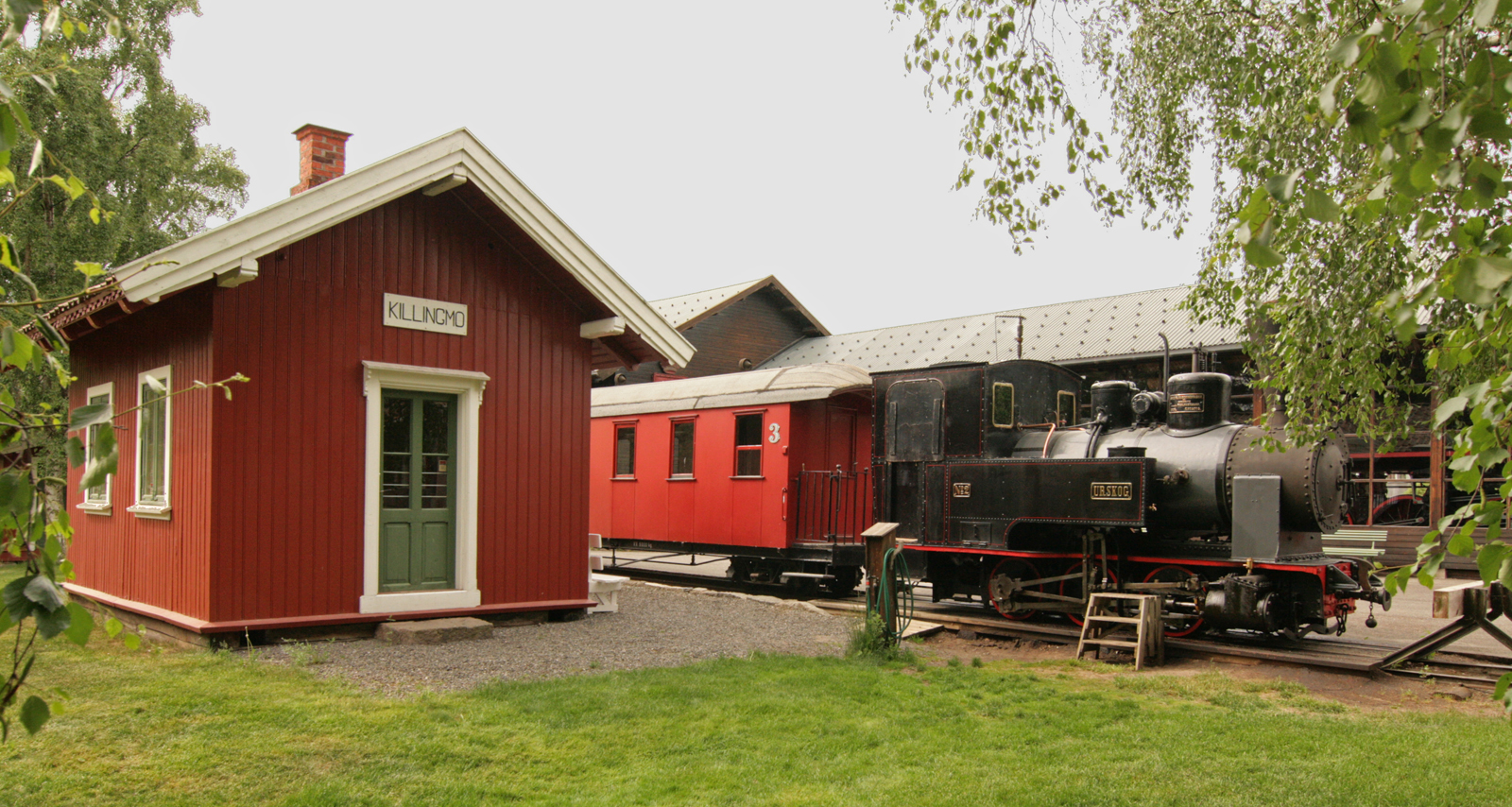 Tertitten museum railway at the National Rail Museum (Jernbanemuseet) of Norway, Hamar.